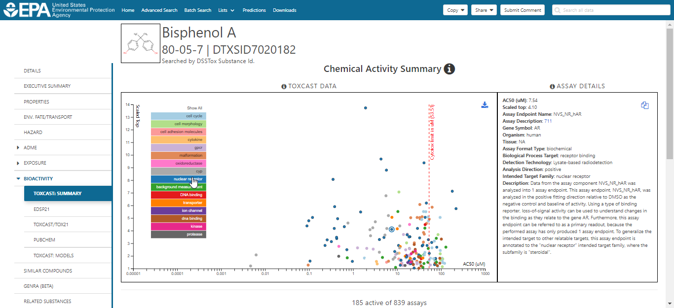 The summary view of bioactivity data associated with Bisphenol A as displayed on the US-EPA CompTox Chemicals Dashboard